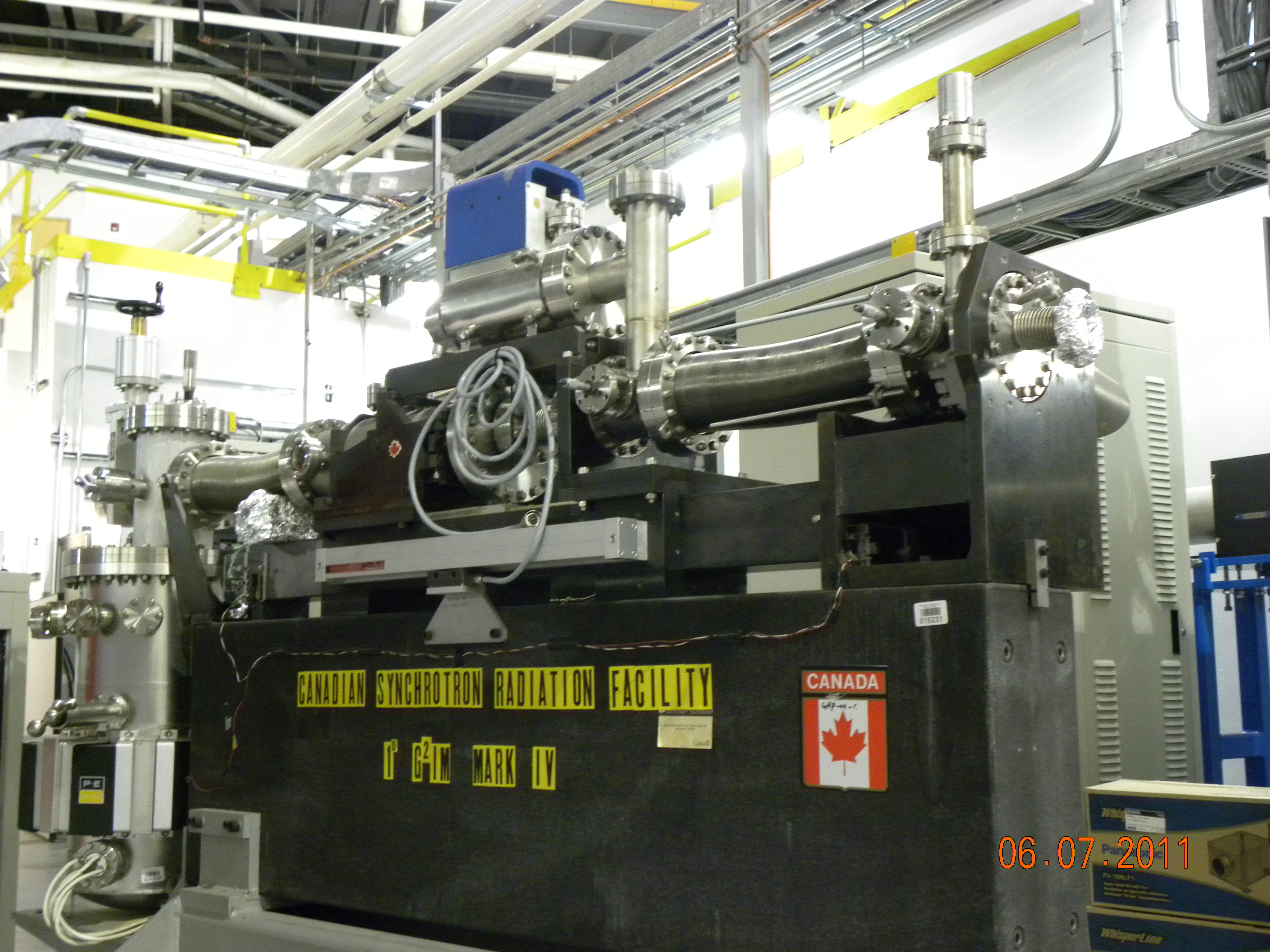 The Grasshopper monochromator from Canada's first synchrotron beamline - once part of the Canadian Synchrotron Radiation Facility at Wisonsin's SRC, now a museum piece at the Canadian Light Source synchrotron, Saskatoon